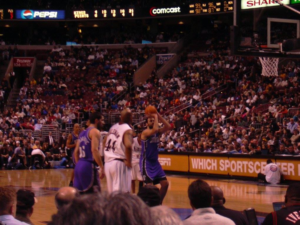 Vlade Divac shoots a free throw at the First Union Center in Philadelphia